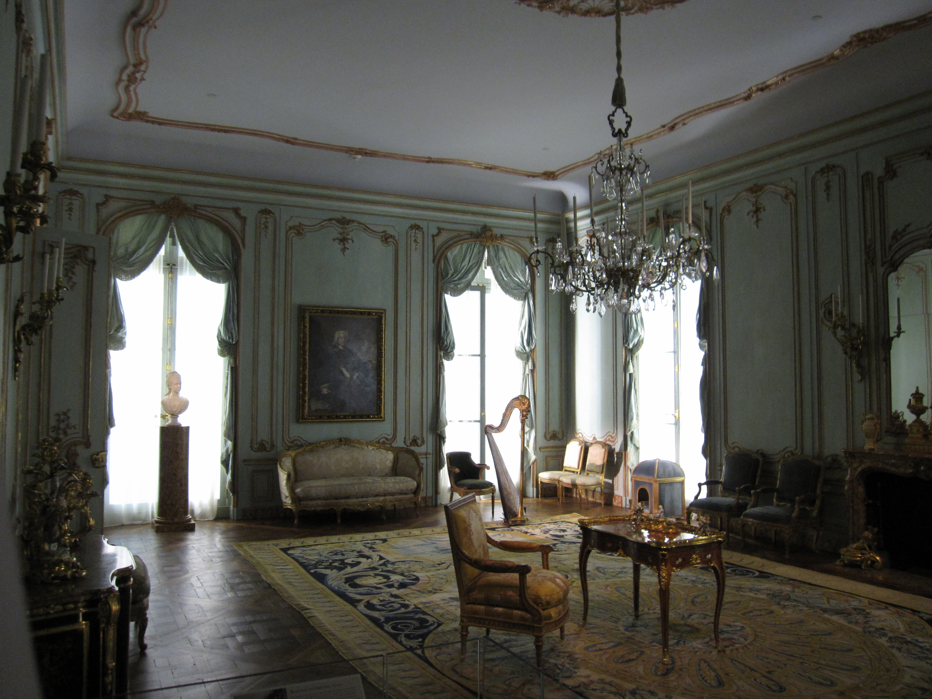 Room from the Palais Paar (Wollzeile), at the Metropolitan Museum.